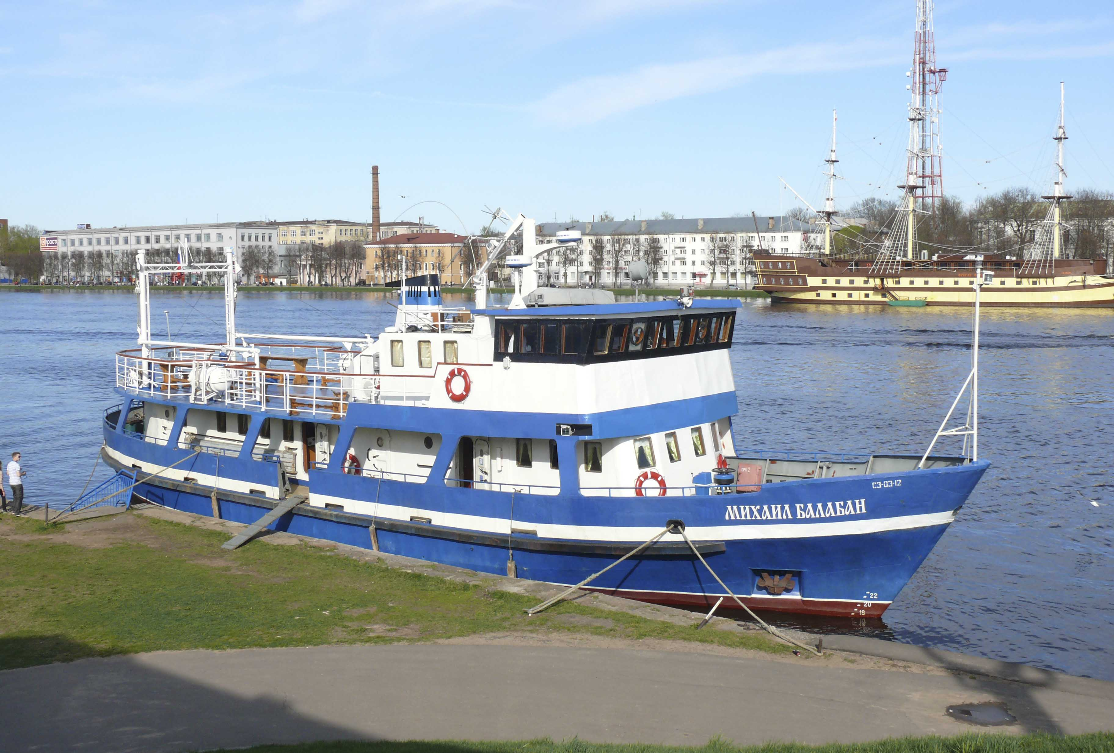 "Mikhail Balaban" - training ship of the Novgorodian Young Sailors Club. Veliky Novgorod, Russia